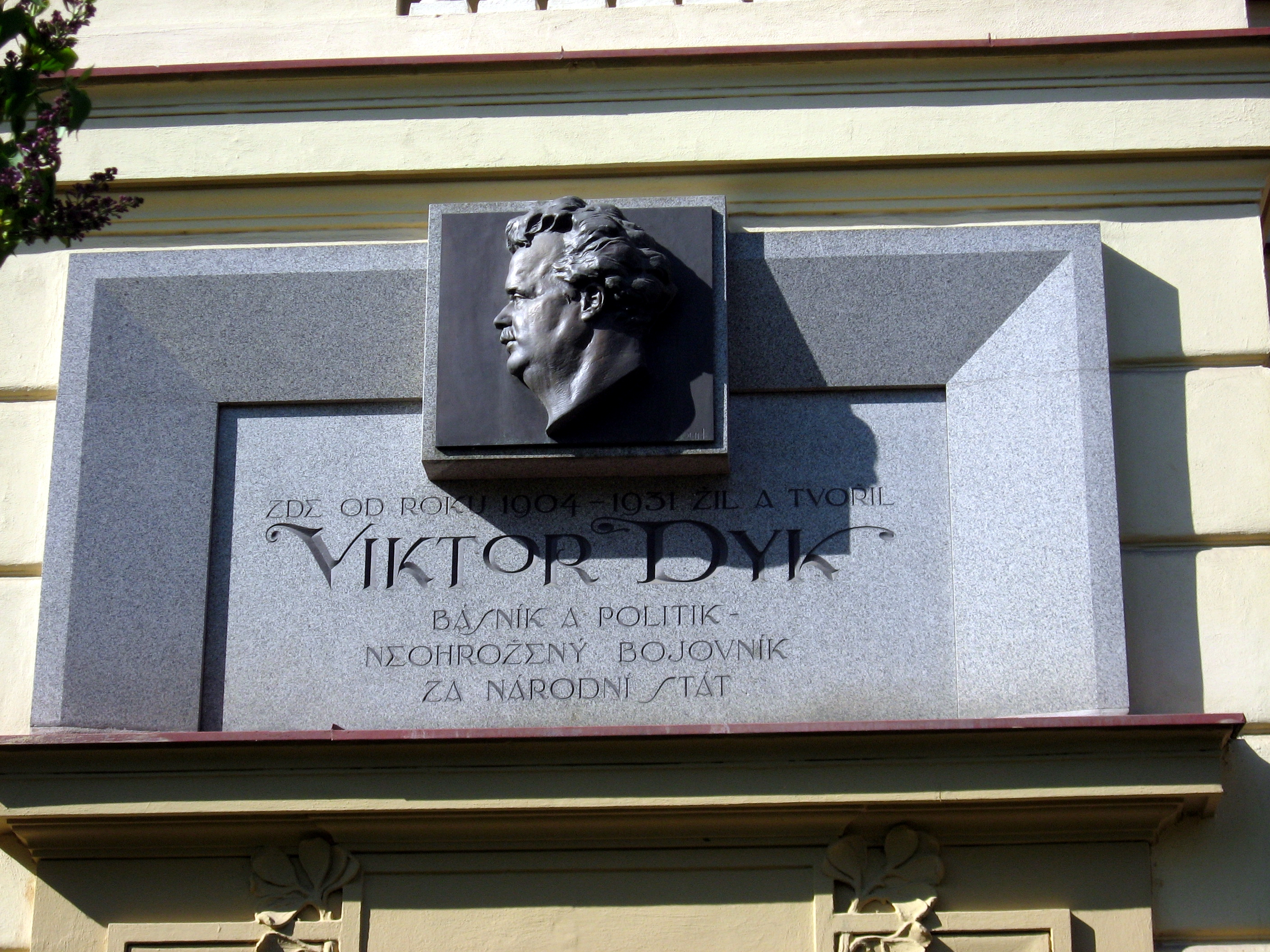 Memorial plaque of Viktor Dyk in Dykova Street, Prague-Vihohrady.